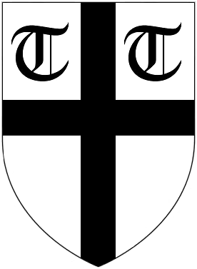 Arms of Rashleigh of Rashleigh, Wembworthy, per Pole, Sir William (d.1635), Collections Towards a Description of the County of Devon, Sir John-William de la Pole (ed.), London, 1791, p.499: Argent, a cross sable two text tees in chief of the last. Agreed by Burke's General Armory, 1884. The arms of the Cornwall junior branch of Rashleigh of Menabilly descended from the Rashleigh of Rashleigh family is a variant on these arms.